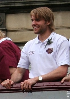 Robbie Neilson. Image cropped from original at Flickr.